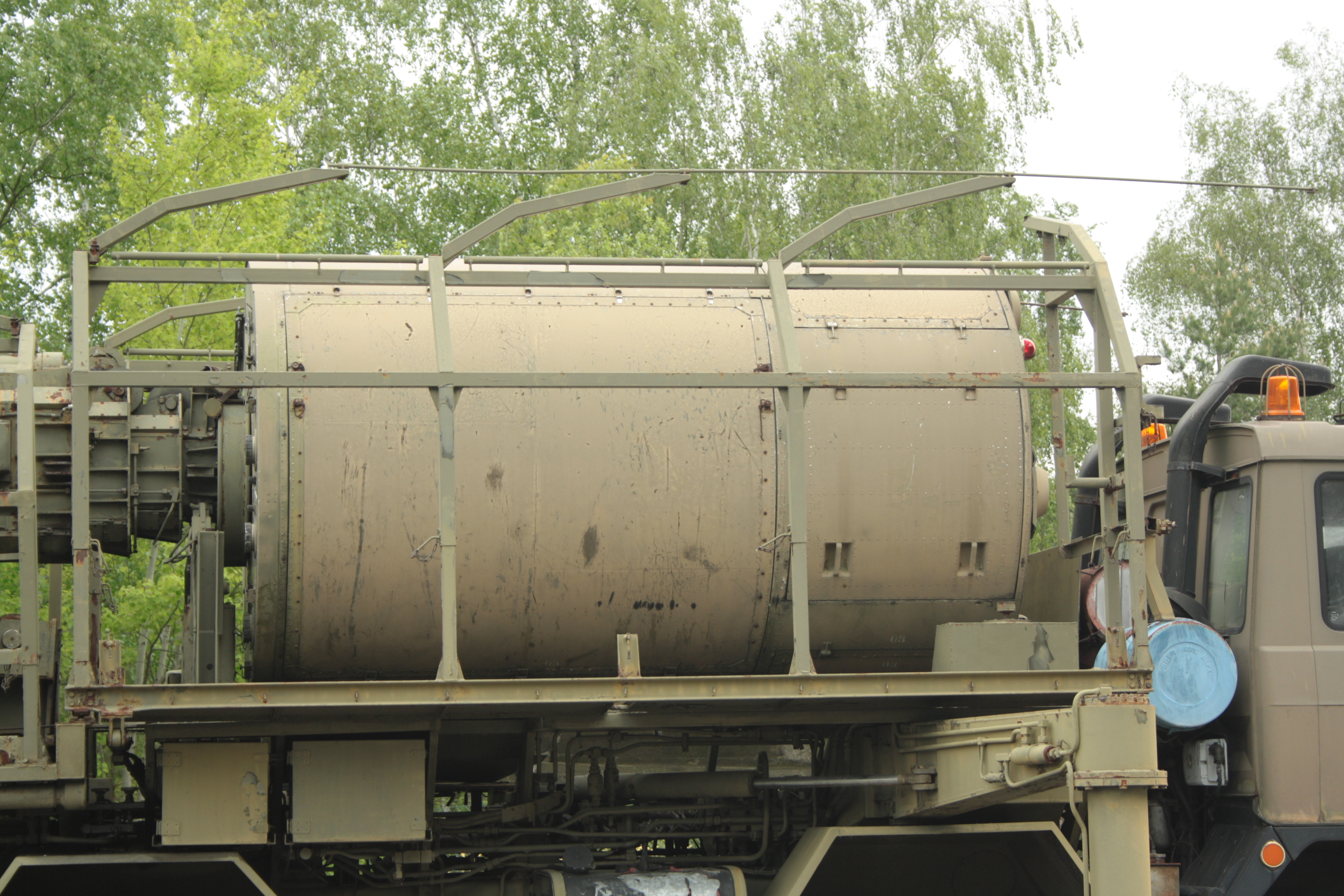 Antenna and transmitter mast of Tamara radiolocator placed on Tatra 815 truck in Lešany military museum, Central Bohemian Region, CZ This photograph was taken with a DSLR from WMCZ's Camera grant. This picture was taken and/or got within the scope of the 'Acquiring scientific and specialized pictures' grant.